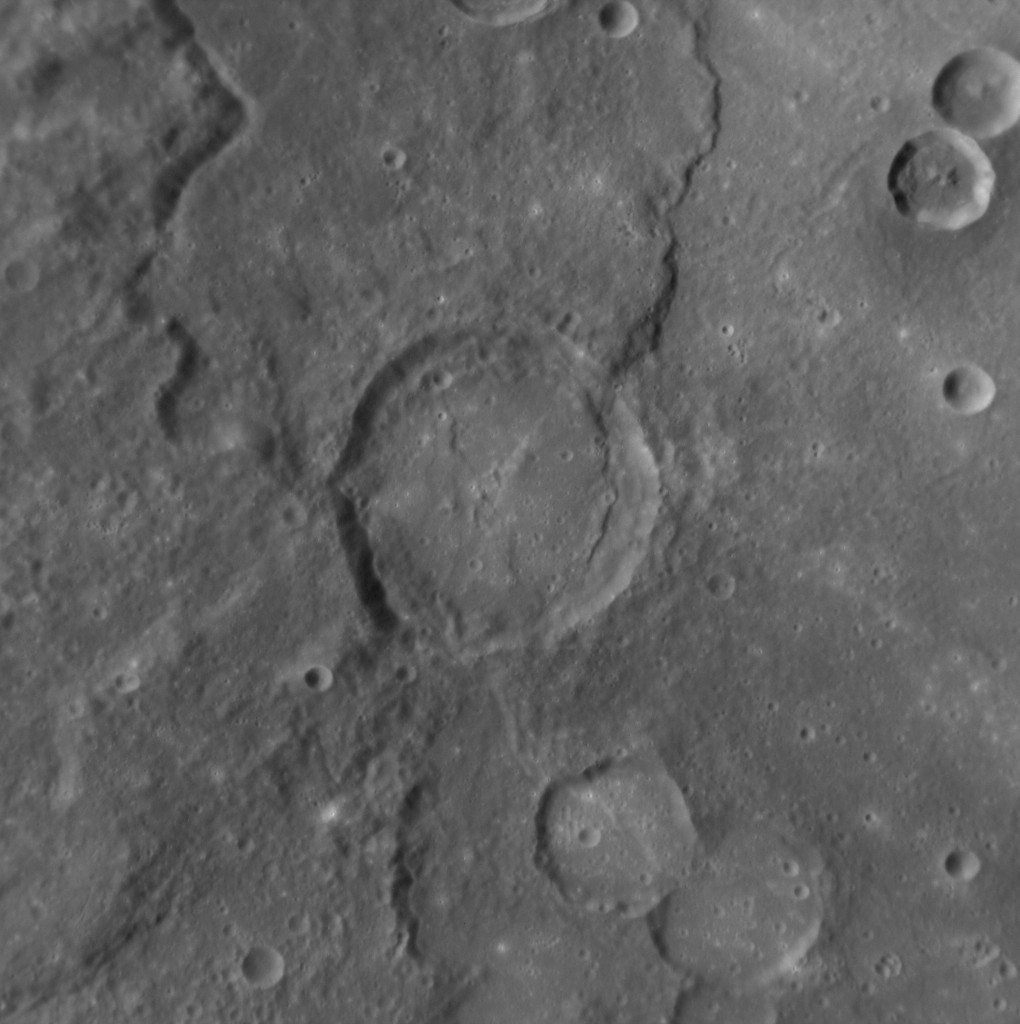 Karsh crater on Mercury, on the west side of the larger Rembrandt crater. MESSENGER Narrow Angle Camera. North is in upper left. Width is approximately 180 km. Emission Angle: 15.3 Incidence Angle: 51.2 Latitude: -35.6 Longitude: 78.8 Phase Angle: 52.6